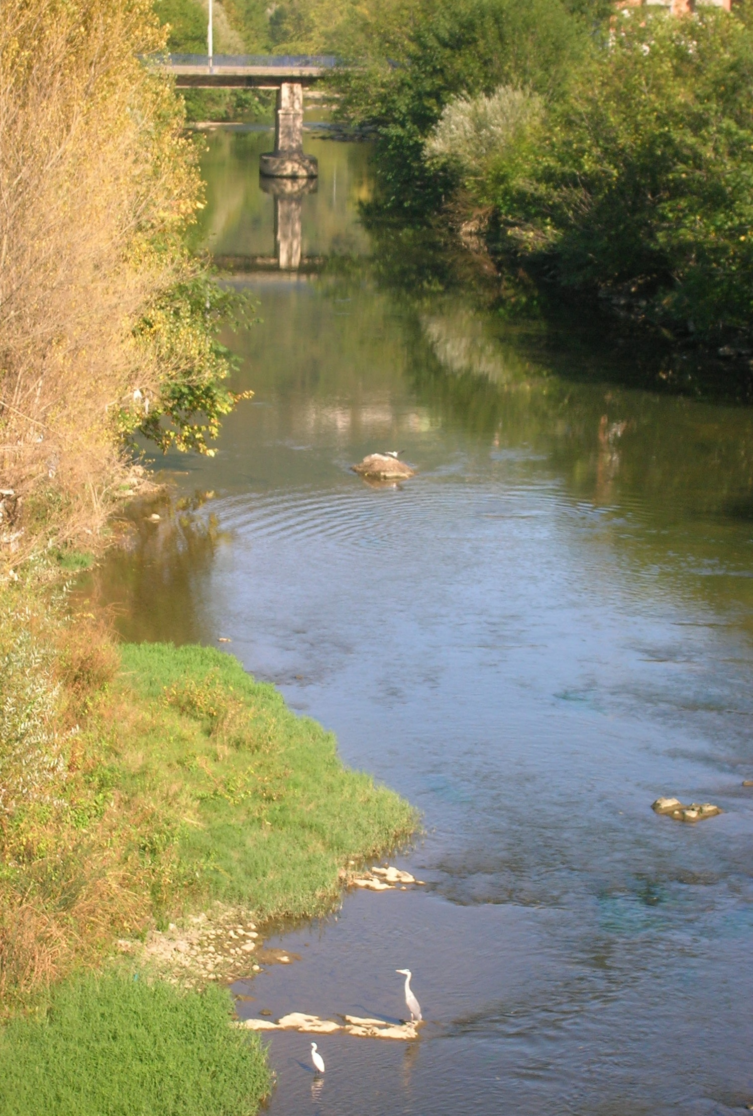 River Nervión at Etxebarri - Echévarri